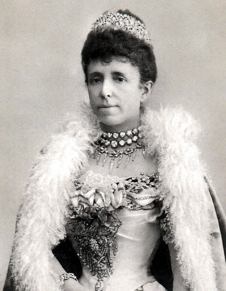 Maria Christina of Austria (1891)